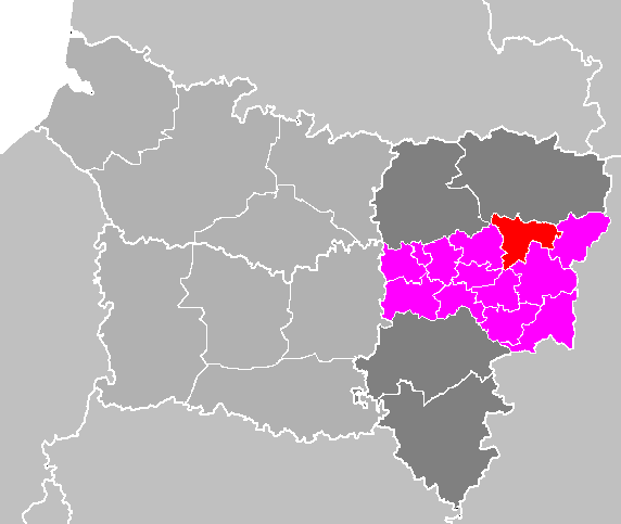 Maps of arrondissements and cantons of France: Arrondissement de Laon